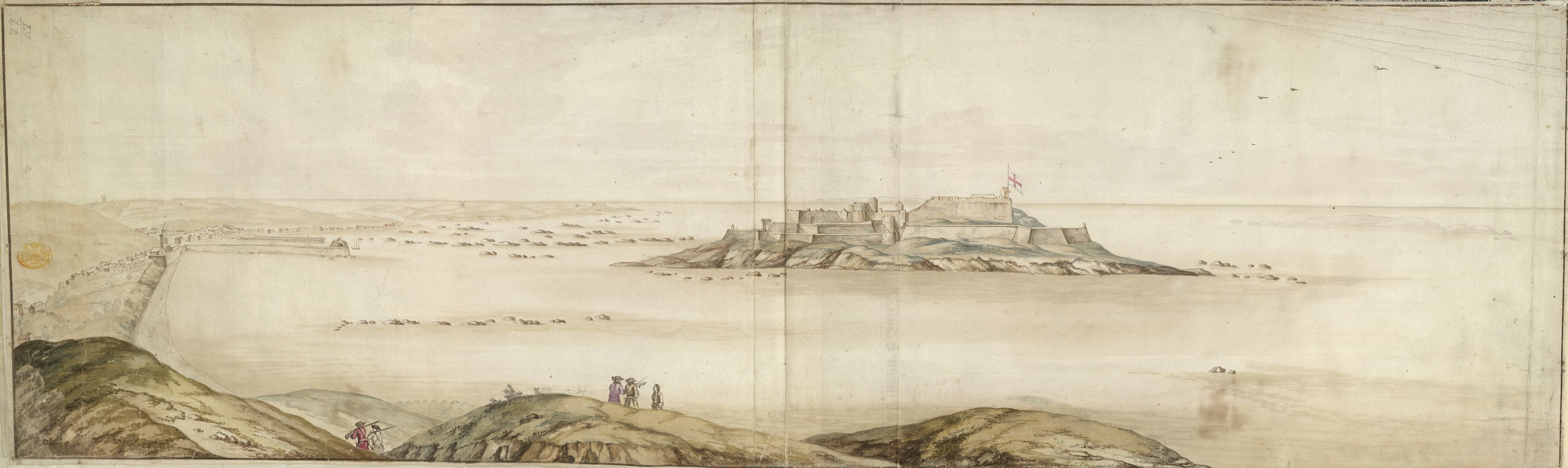 Historical view of Castle Cornet on Cornet Rock, east off Guernsey, Channel Islands, Ink wash on paper Original size 104,14 cm × 45,72 cm A colored plan of the town of St. Peter's and Castle Cornet in the island of Guernsey; drawn about 1694, [by Martin Beckman?] without a scale, but about 130 feet to an inch: 3 f. 5 in. × 1 f. 6 in. [ LV. 61.][1]